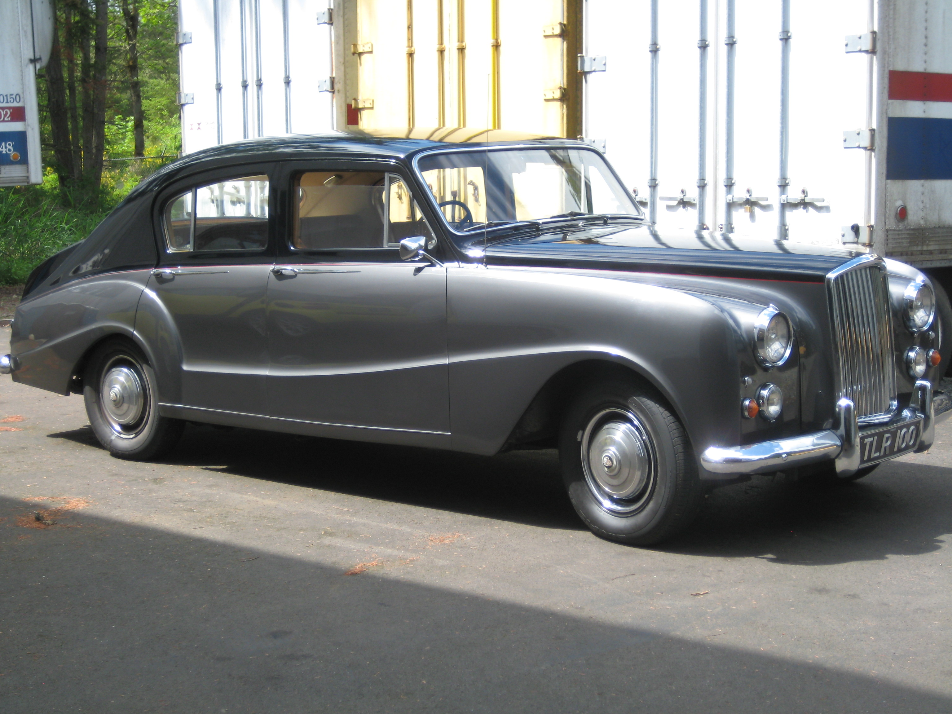 Vanden Plas Princess saloon LeMay Family Collection, Spanaway, Washington, USA